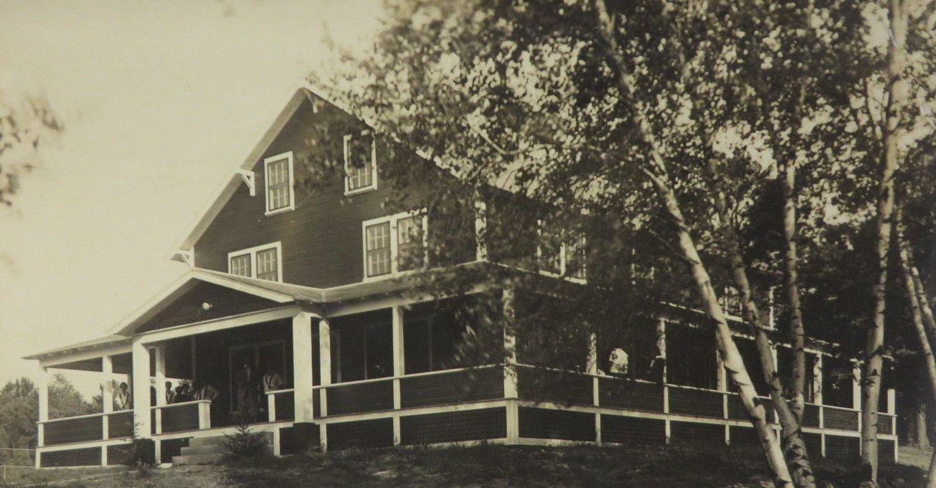 Camp Cody's administration building, circa 1920s, when the site was owned by the all girls camp, Camp Adeawonda.